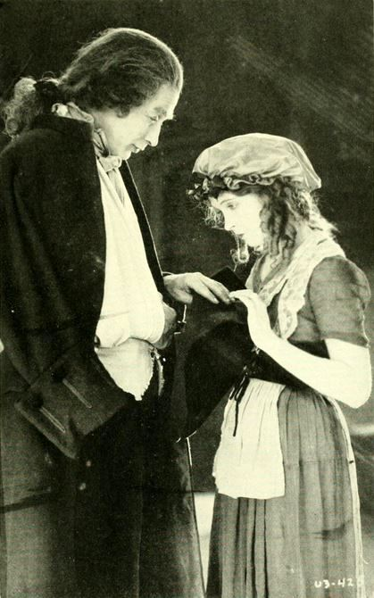 Still from the American film Orphans of the Storm (1921) with Monte Blue and Lillian Gish, on page 181 of William Lord Wright, Photoplay Writing (1922).